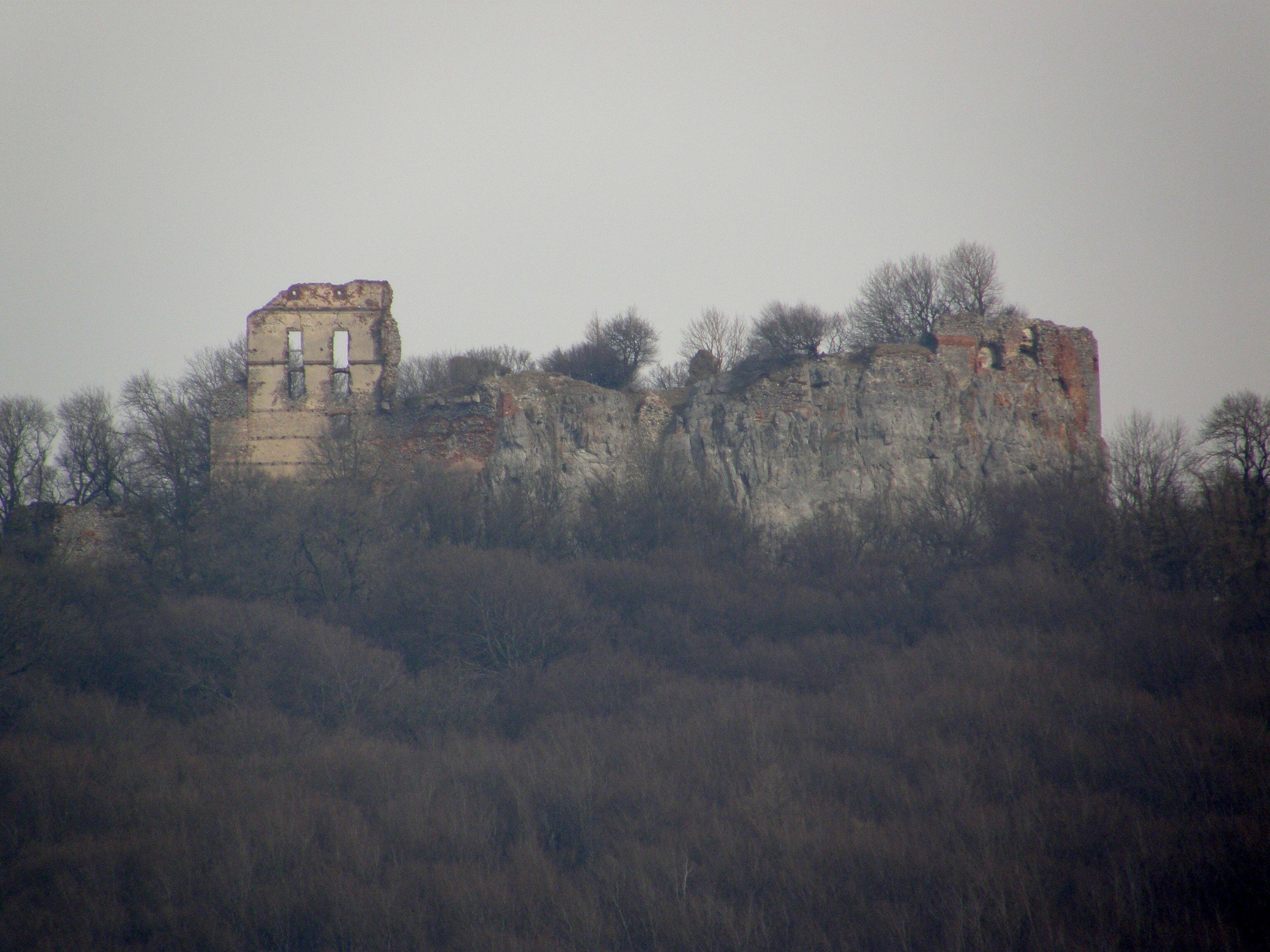 Pajštún Castle, Slovakia, general view.